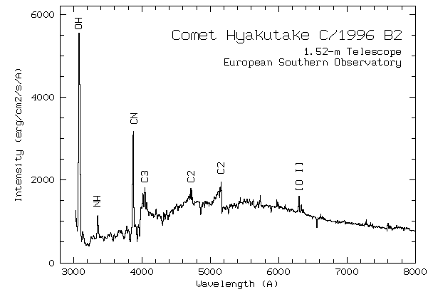 A complete, optical spectrum of Comet Hyakutake was obtained with the ESO 1.52-m telescope (La Silla Observatory) by Hilmar Duerbeck (ESO) on UT March 8.3, 1996. For this observation, the Boller & Chivens spectrograph with a new UV-sensitive CCD chip was used. The subsequent data reduction was performed by the observer and Stefano Benetti (ESO) at ESO's office in Santiago de Chile.